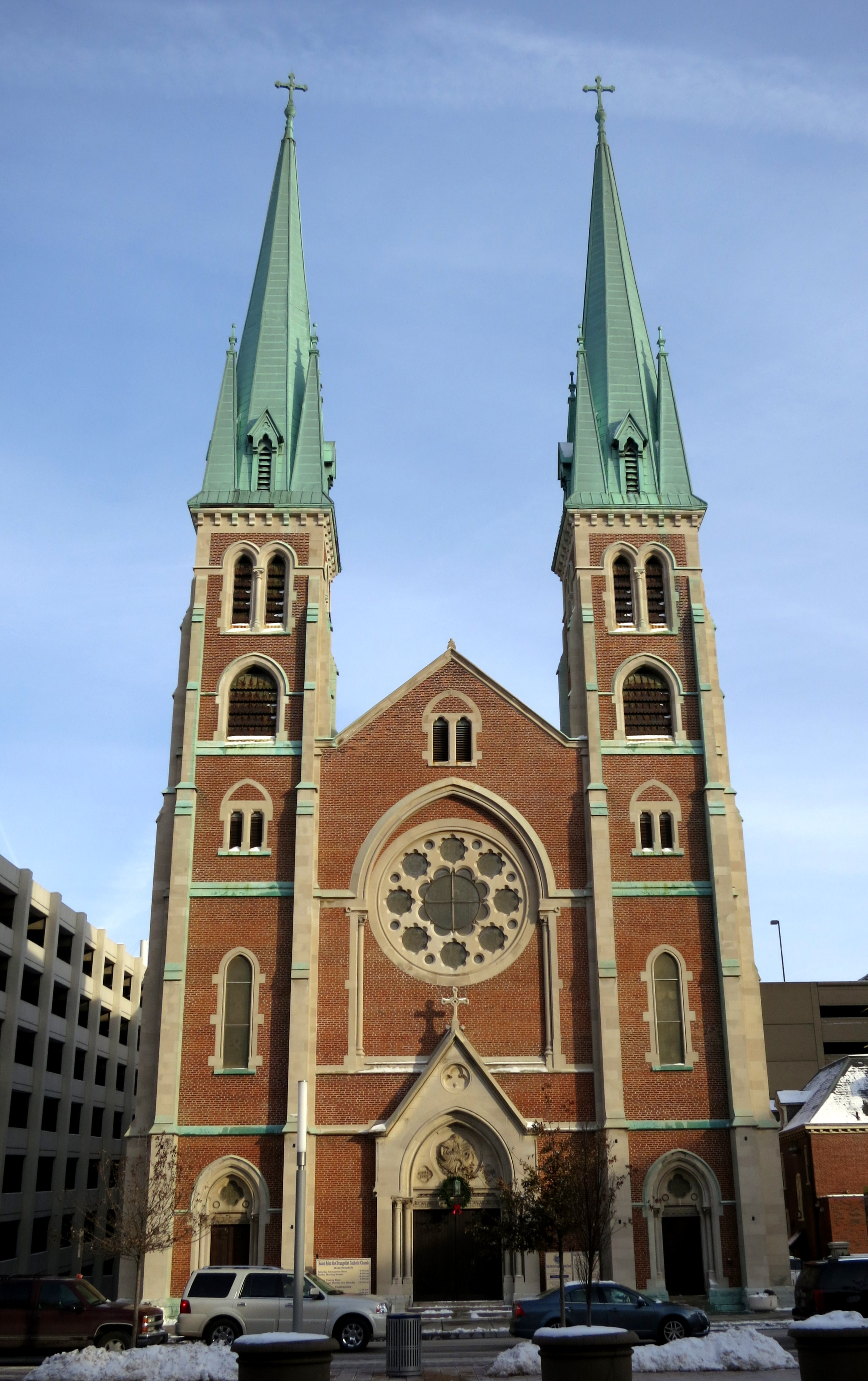 Saint John the Evangelist Church (Indianapolis, Indiana) - exterior